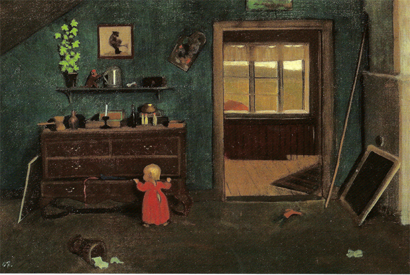 Interior, Little girl by the chest of drawers